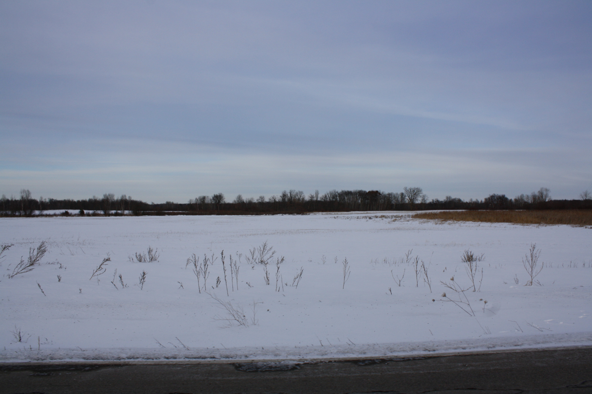 The landscape in the town of Maine, Outagamie County, Wisconsin across from the town hall along Wisconsin Highway 187.